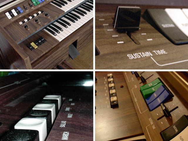 Kawai Dreamatone Electronic Organ